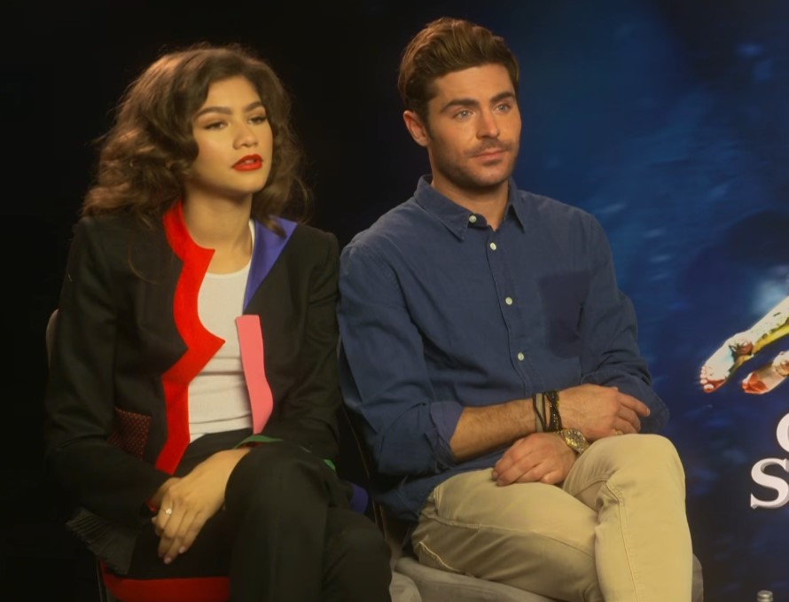 Zac Efron and Zendaya Coleman